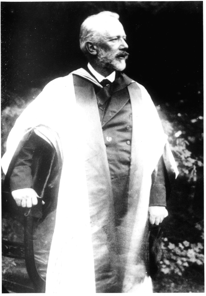 Tchaikovsky in doctoral robe (Cambridge University, June 1893).